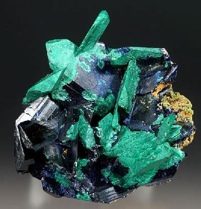 Azurite Locality: Tsumeb Mine (Tsumcorp Mine), Tsumeb, Otjikoto (Oshikoto) Region, Namibia (Locality at ) A truly exceptional azurite specimen, showing also partial alteration to velvety, chatoyant malachite! In person, it has a more 3-dimensional flowery shape to it and is clearly MUCH better than most. 9 x 7 x 4.5 cm